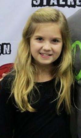 in 2016, KYLA KENEDY*